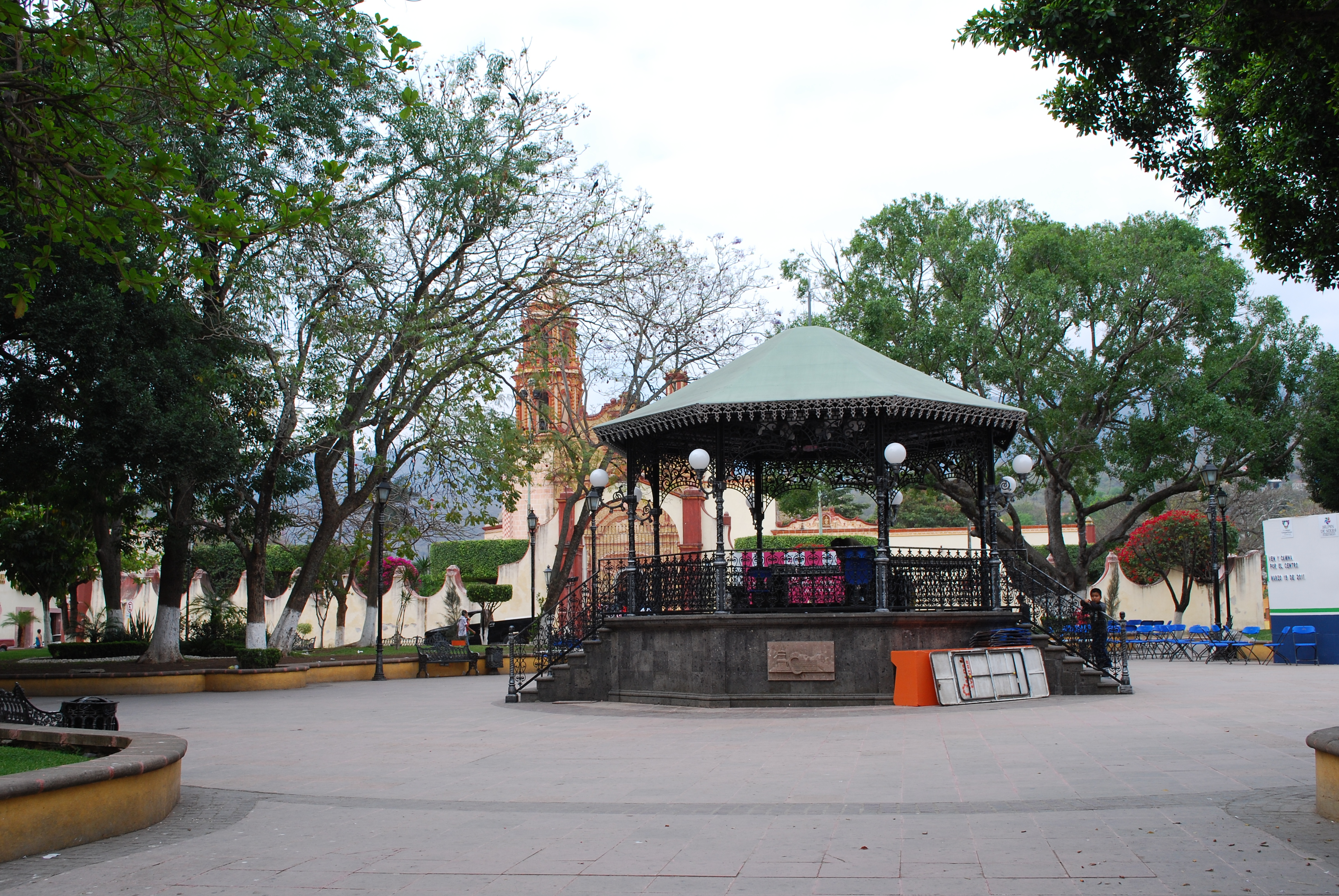 View of main plaza with kiosk and church behind in Jalpan de Serra, Querétaro, Mexico